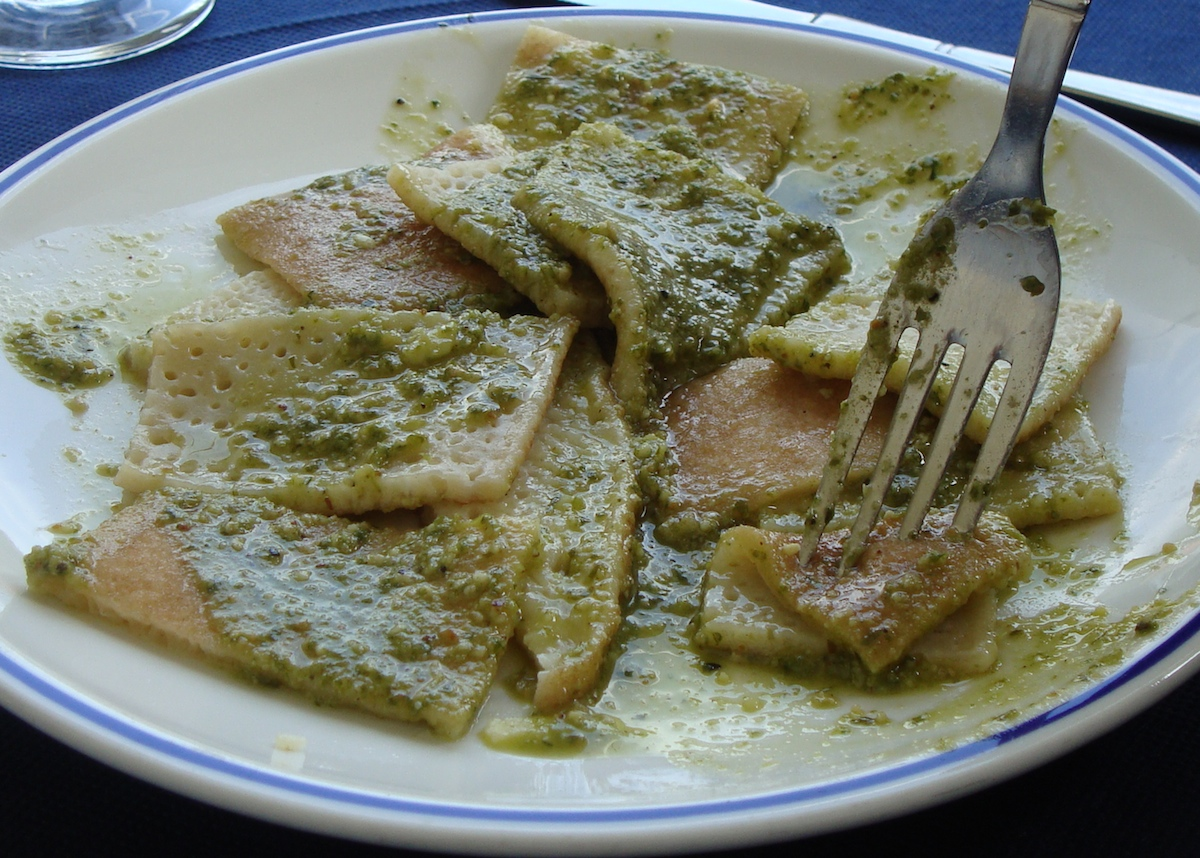 A plate of Panigacci with Pesto as served in a restaurant in Pontremoli